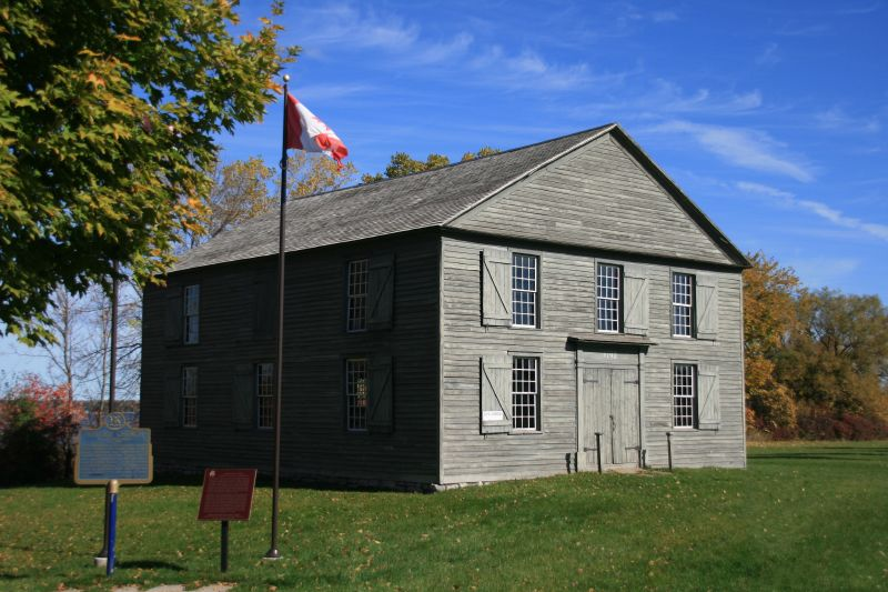 This simple church was built in 1792 by United Empire Loyalists. The church was enlarged in 1835, and remains the oldest surviving Methodist building in Canada. Greater Napanee, Ontario, Canada.